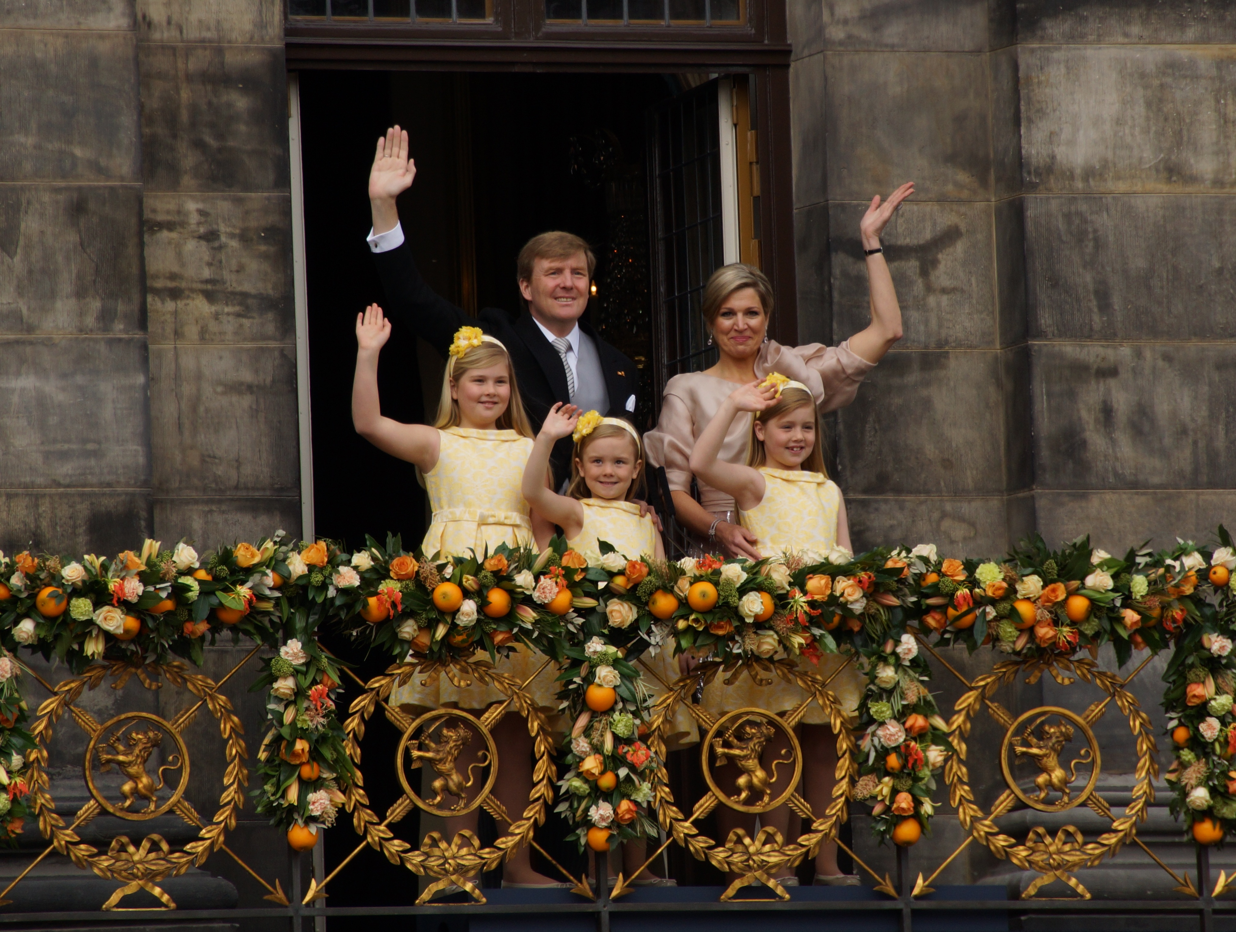 King Willem-Alexander, Queen Maxima and Princesses Catharina-Amalia, Alexia and Ariane during the balcony scene after the abdication of Beatrix.